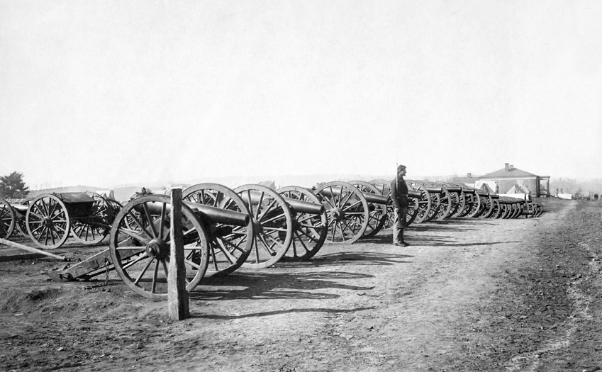 Accession Number: 1979:0022:0027 Maker: Unidentified Title: View of park of artillery captured at the Battle of Chattanooga, November 24, 24, 25, & 26th, 1863. Date: ca. 1865 Medium: albumen print Dimensions: 20.0 x 32.3 cm. George Eastman House Collection · ·